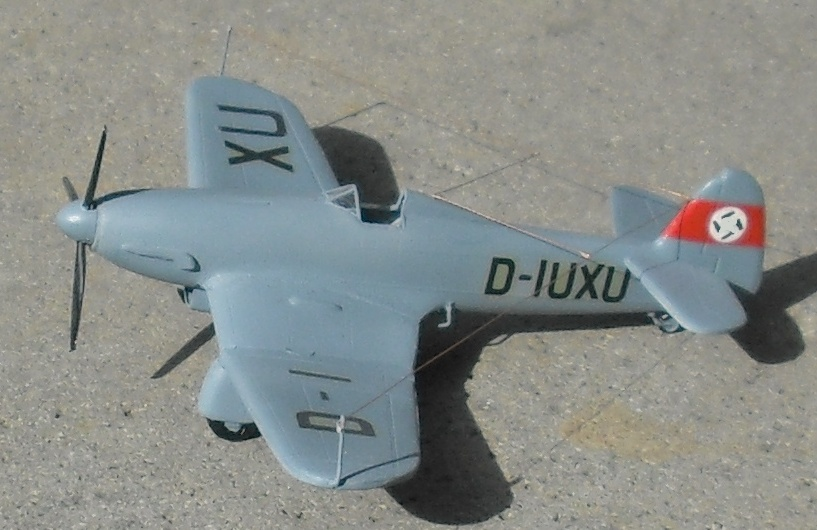 Model of a Blohm & Voss Ha 137 dive bomber